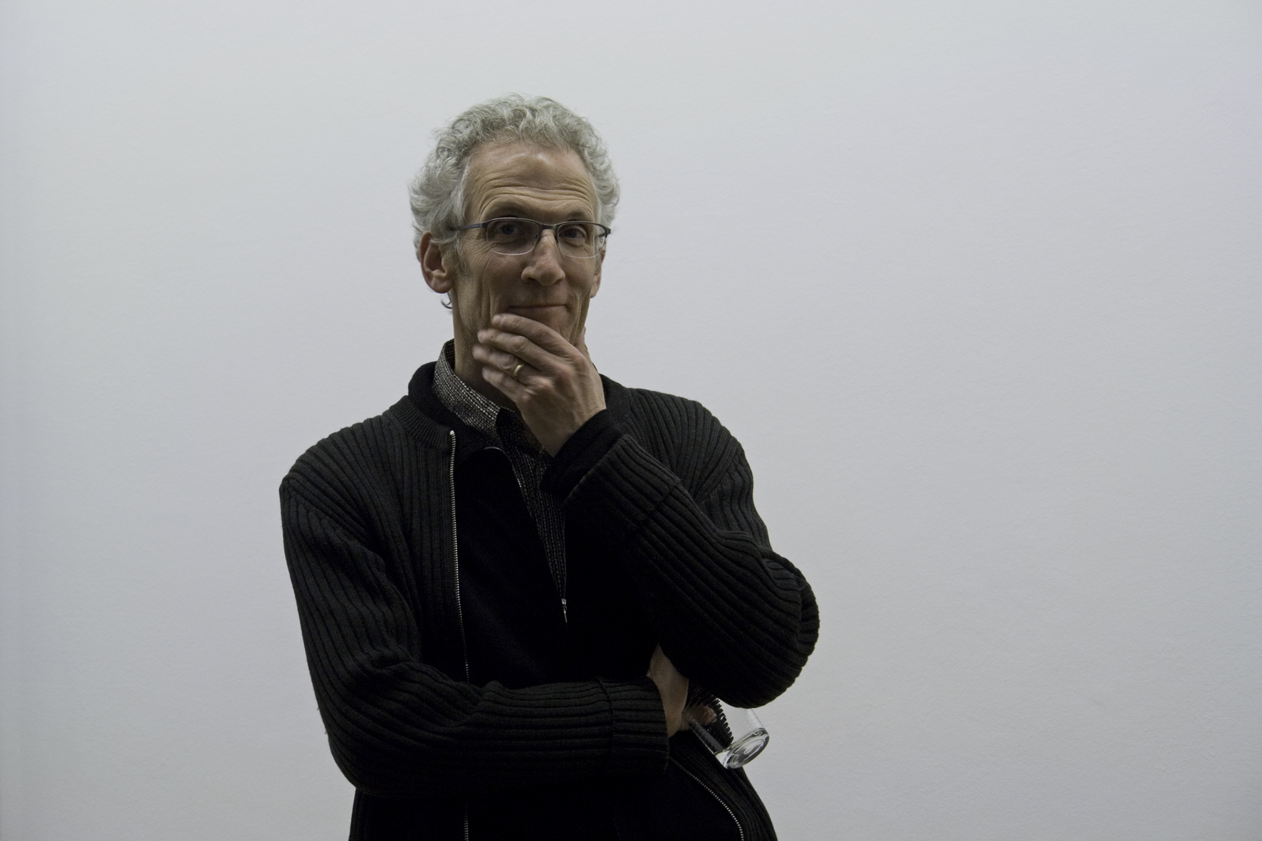 Mitch Epstein, us-amerikanischer Fotograf (Galerie Zander, Köln/Cologne)